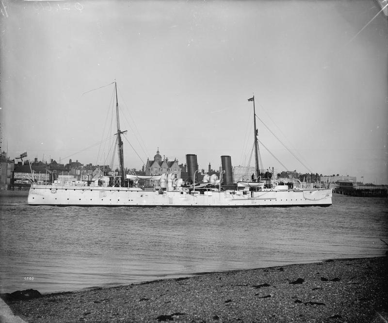 Photograph of British cruiser HMS Pallas.